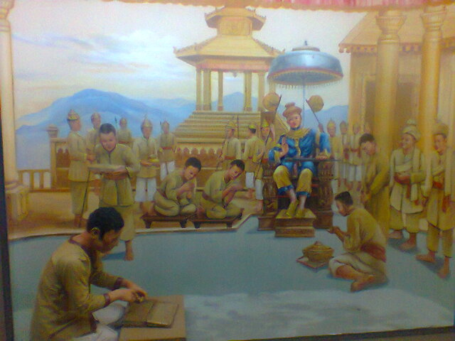 sukafa kshetra